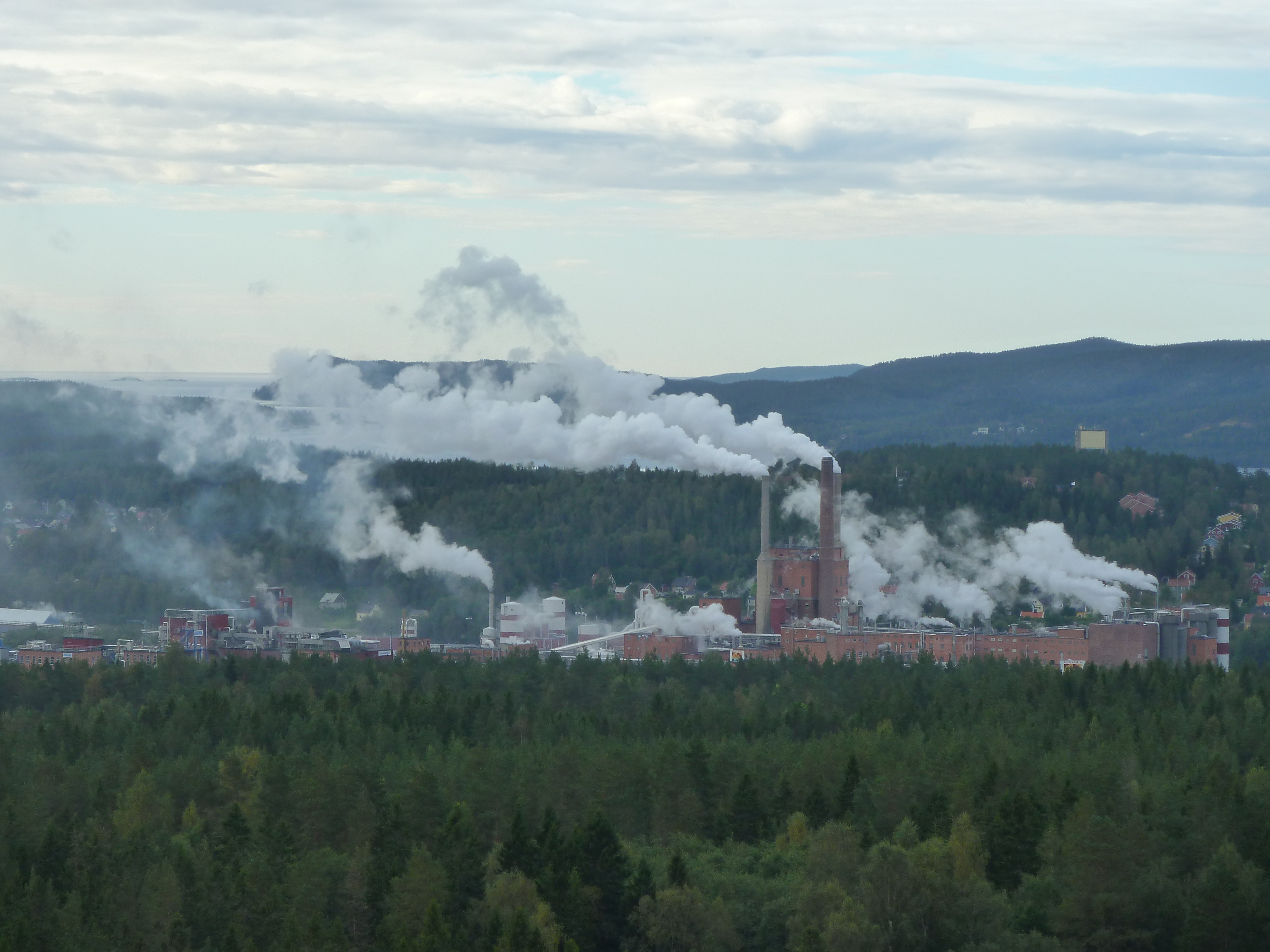 Domsjö Fabriker, Örnsköldsvik, Sweden